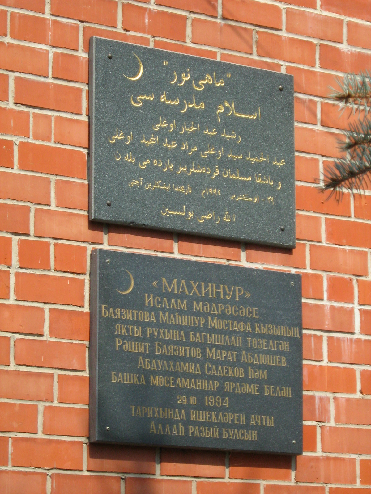 An inscription in Tatar (using Persian and Cyrillic scripts) on one of the buildings of the Nizhny Novgorod Cathedral Mosque. It describes the facility as the Mahinur Madrasah, and gives the list of names of persons involved with its construction (?) in various roles. Татарча/tatarça: "Махинур" ислам мәдрәсәсе